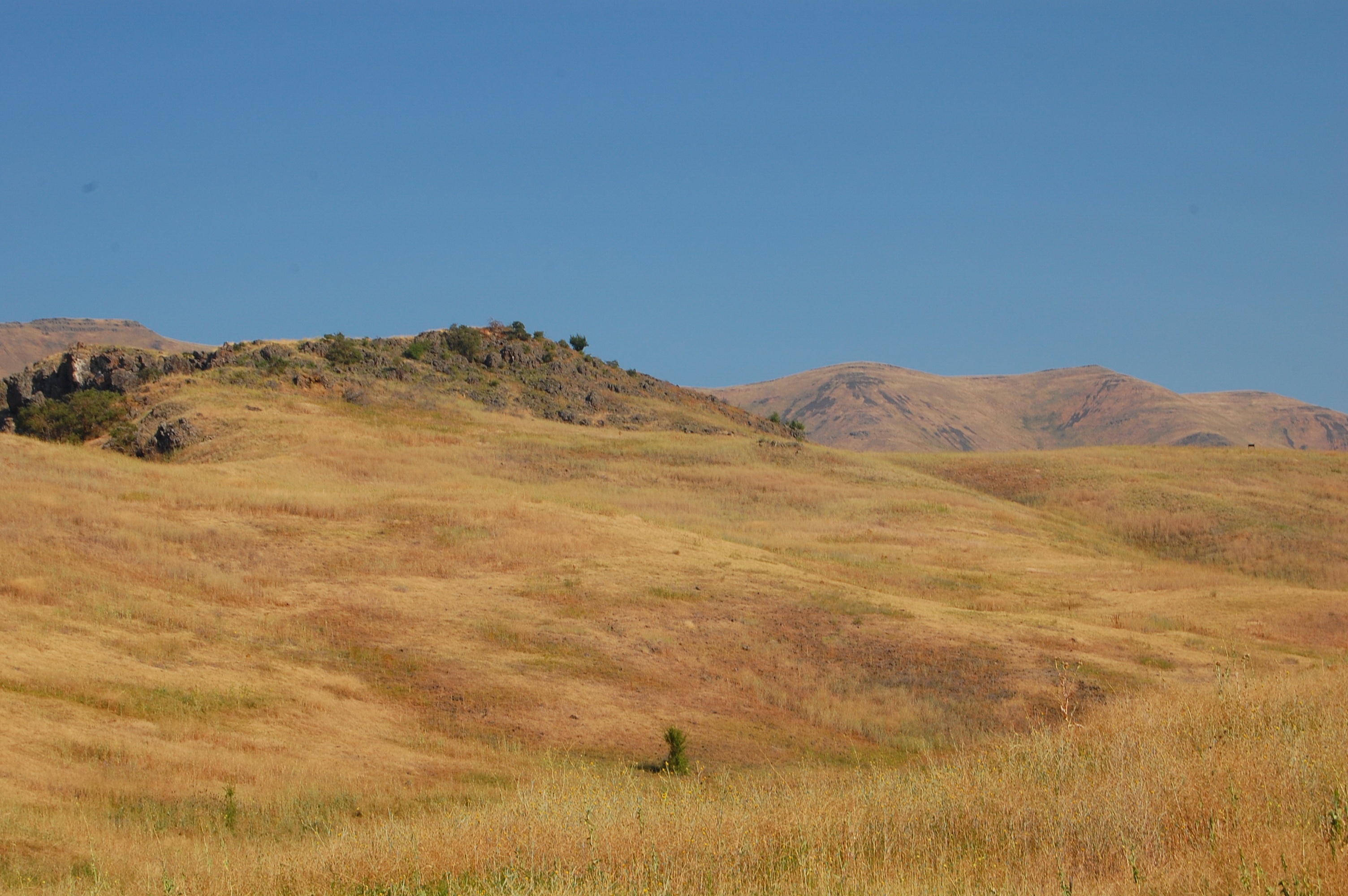 Along the Nez Perce National Historic Trail, White Bird Battlefield, near White Bird, Idaho.